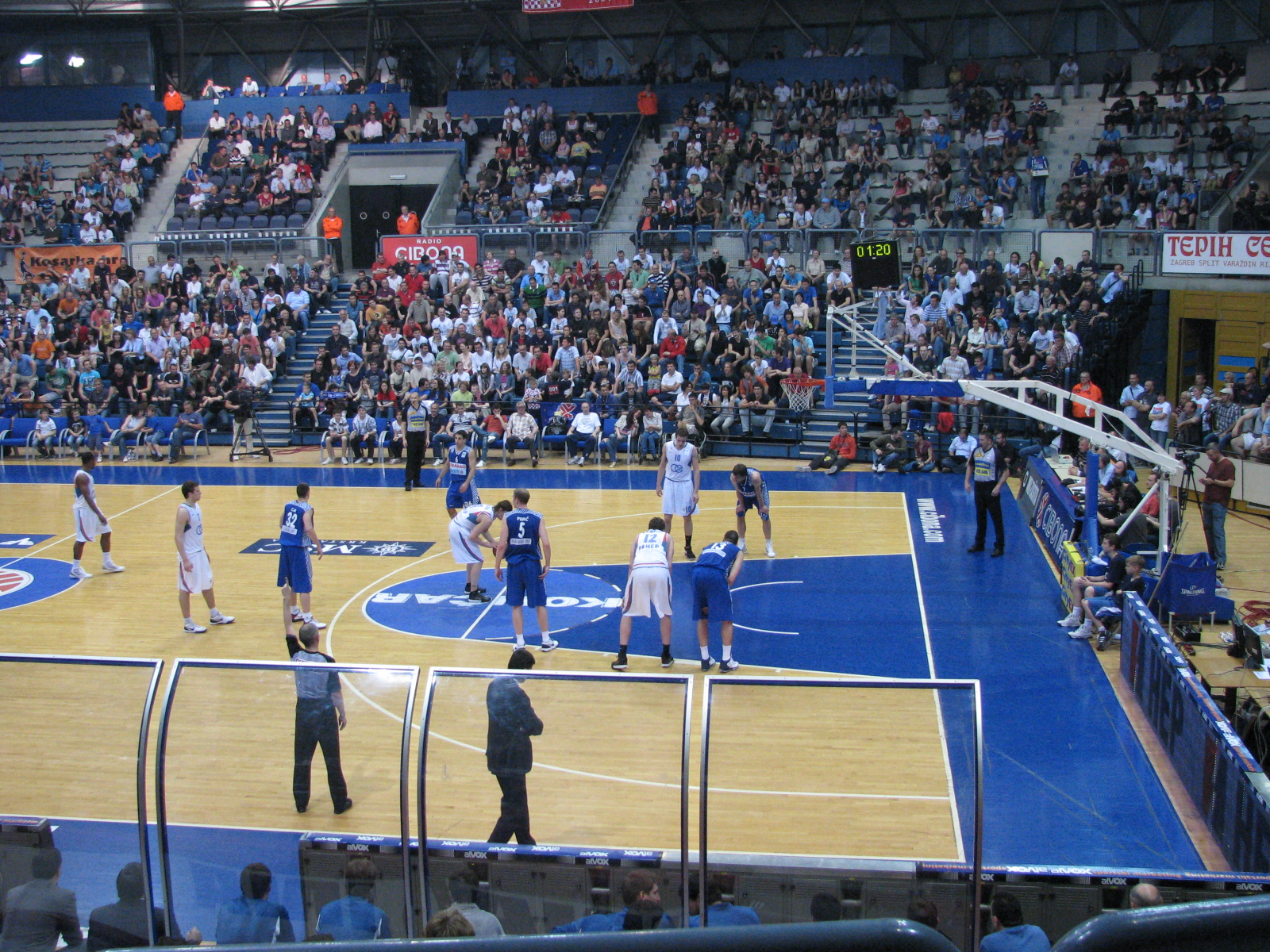 KK Cibona vs. KK Zadar 05/06/2010